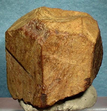 Monazite-(Ce) Locality: Berg, Råde, Østfold, Norway (Locality at ) Size: 4.5 x 4.0 x 2.5 cm. A huge, sharp, euhedral cerium monazite crystal from a classic Norwegian locality, Rade, Ostfold. This is old-time material and is extremely well-crystallized for the size and species. This fine piece is complete all-around is very lightly contacted on only one side. Monazite is a rare earth phosphate. Ex. Carl Davis Collection.